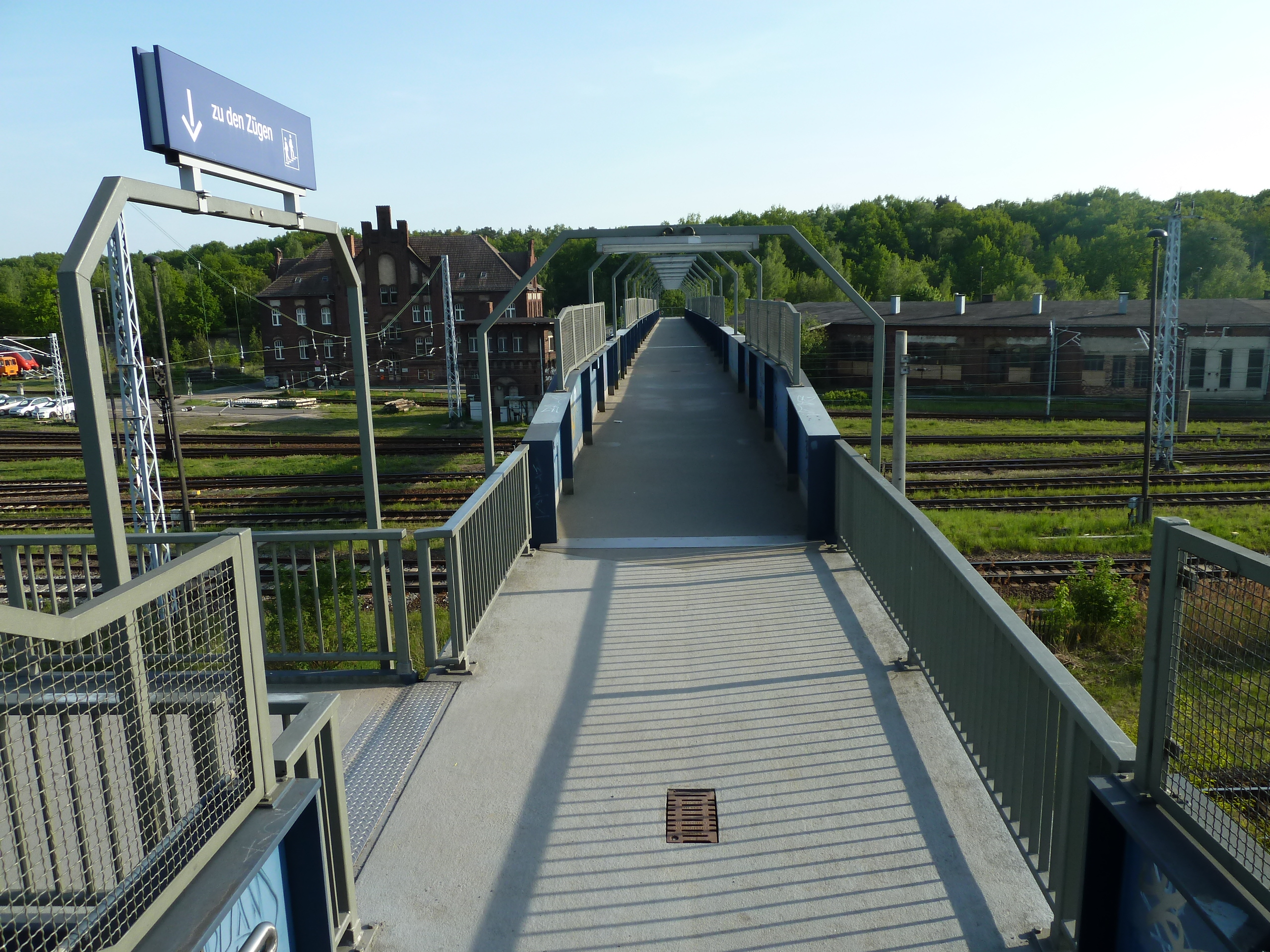 Wustermark Rangierbahnhof, pedestrian bridge